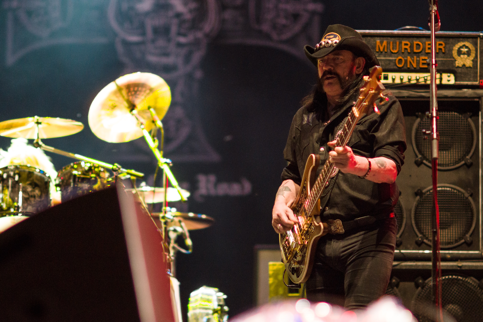 Lemmy Kilmister, vocalist and bassist of Motorhead band. Ursynalia 2013 Warsaw Student Festival, Poland. This photo was taken with Sony SLT-A77 camera, thanks to cooperation with Sony Poland.You can see all photographs in category Taken with Sony SLT-A77. English | polski | +/−